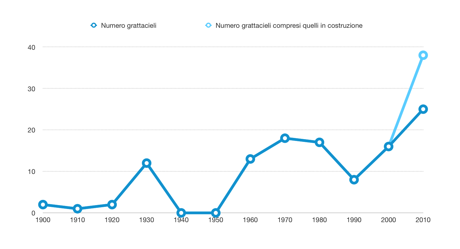 Completed skyscrapers, by decade, in New York City; taller than 183 meters (600 feet).